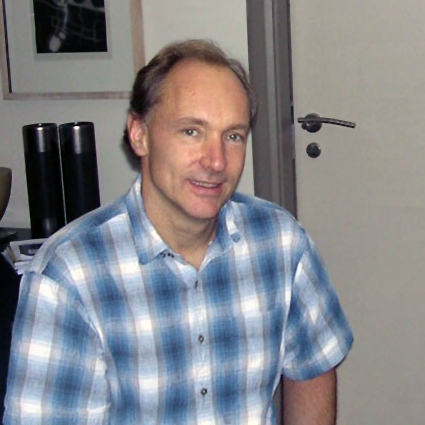 Tim Berners-Lee at a Podcast Interview